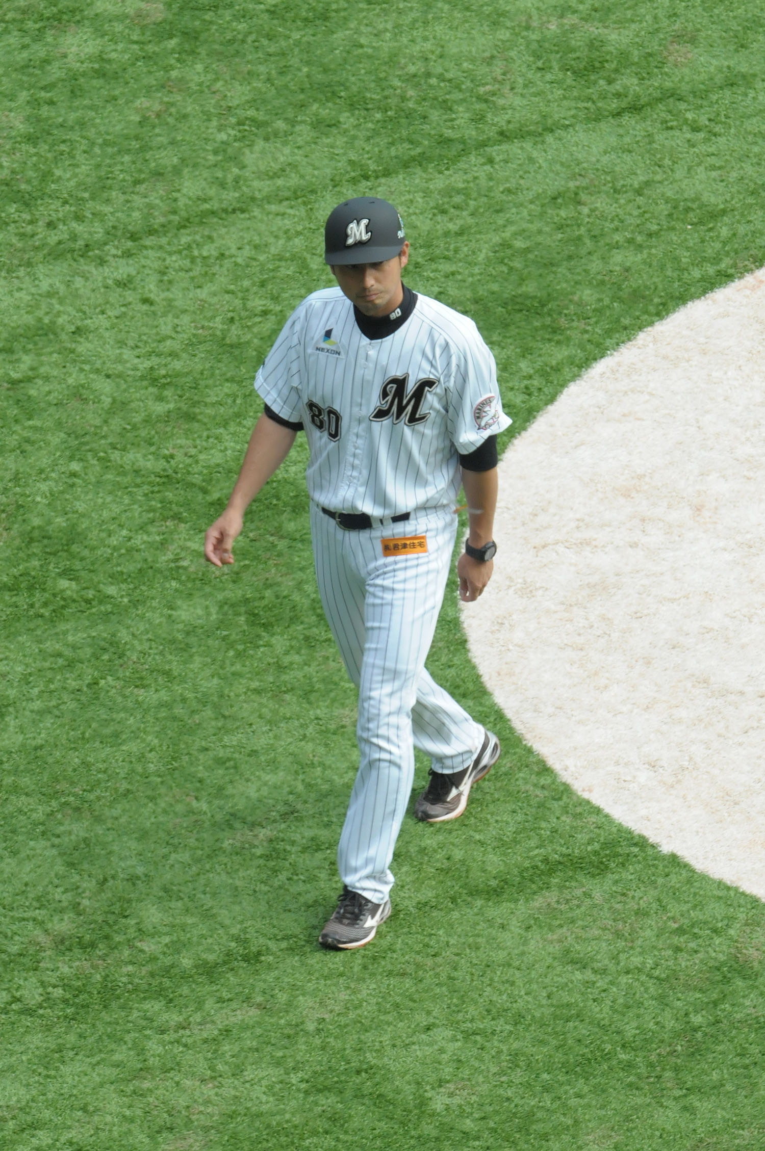 Akira Otsuka, coach of the Chiba Lotte Marines, at QVC Marine Field.